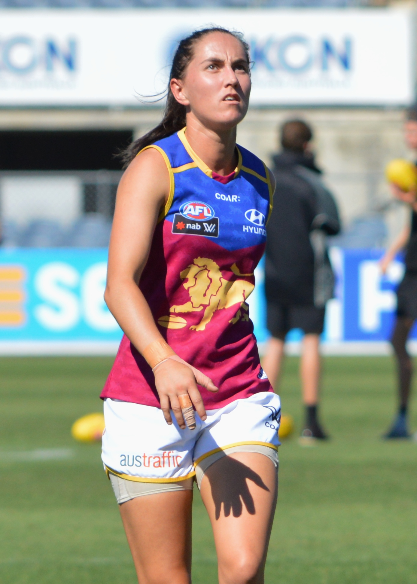 Sharni Webb during the round 7, 2017 AFL Women's match between Carlton and Brisbane.